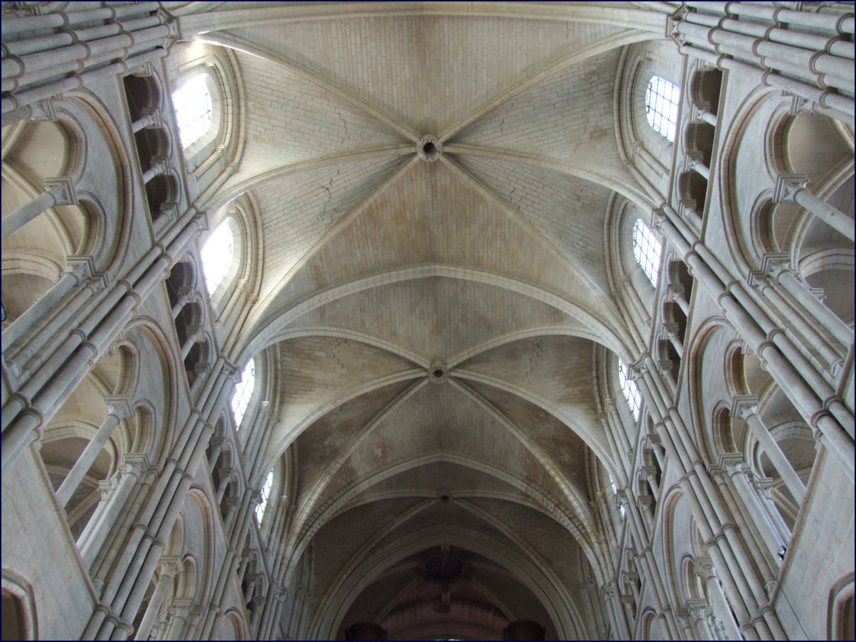 Cathédrale Notre-Dame de Laon (Cathedral Notre Dame of Laon), Laon, France - Interior